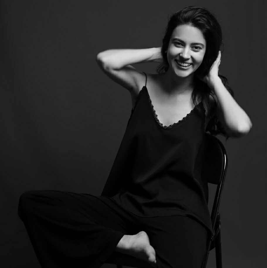 Enxhi Cuku Photoshoot